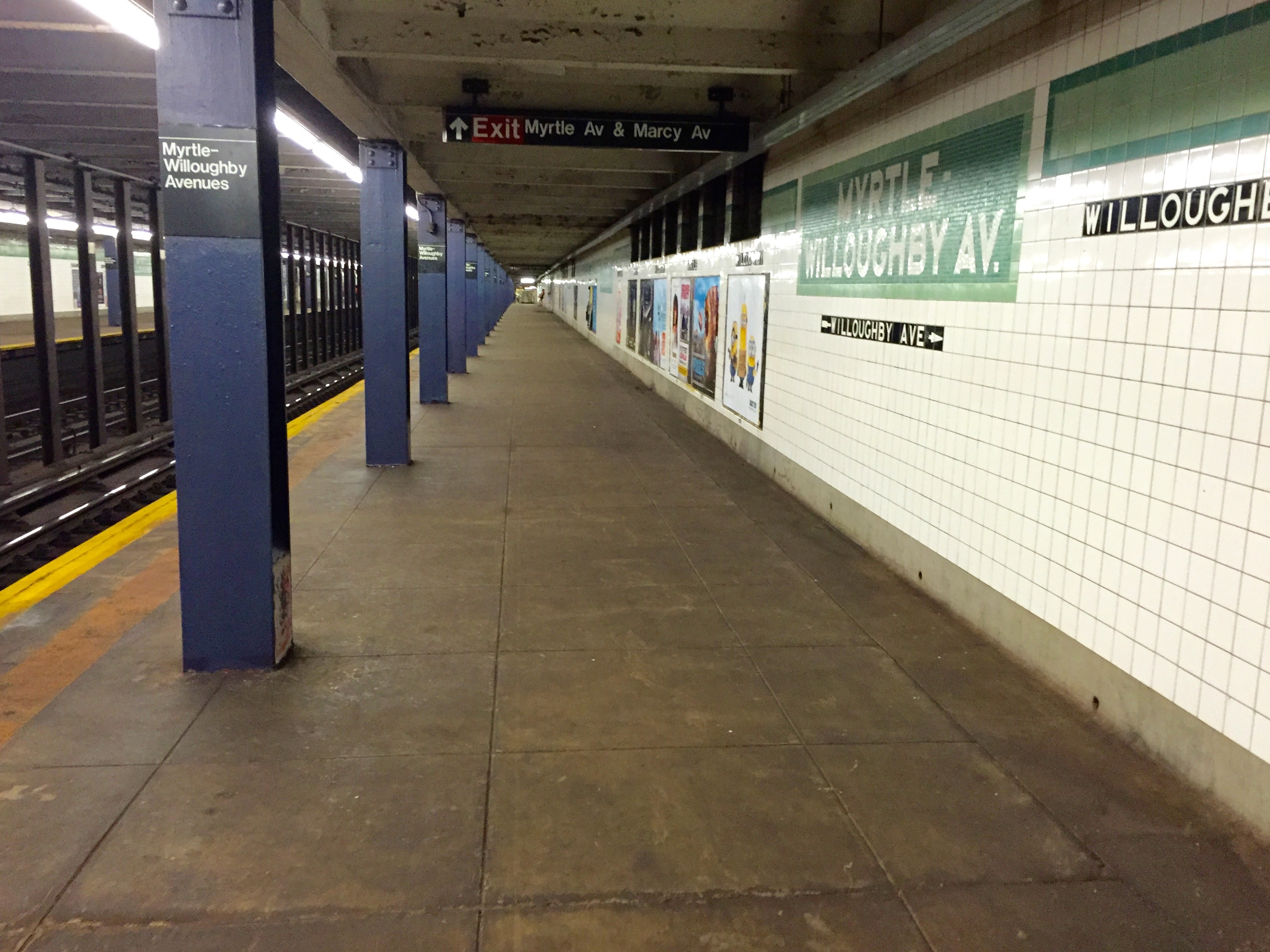 Queens bound platform at Myrtle–Willoughby Avenues on the G.